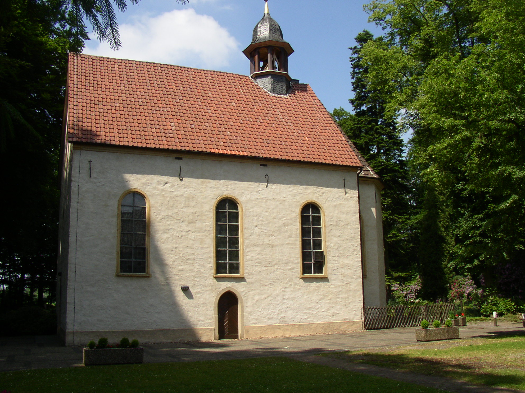 Church in Stockkämpen in Halle (Westfalen)